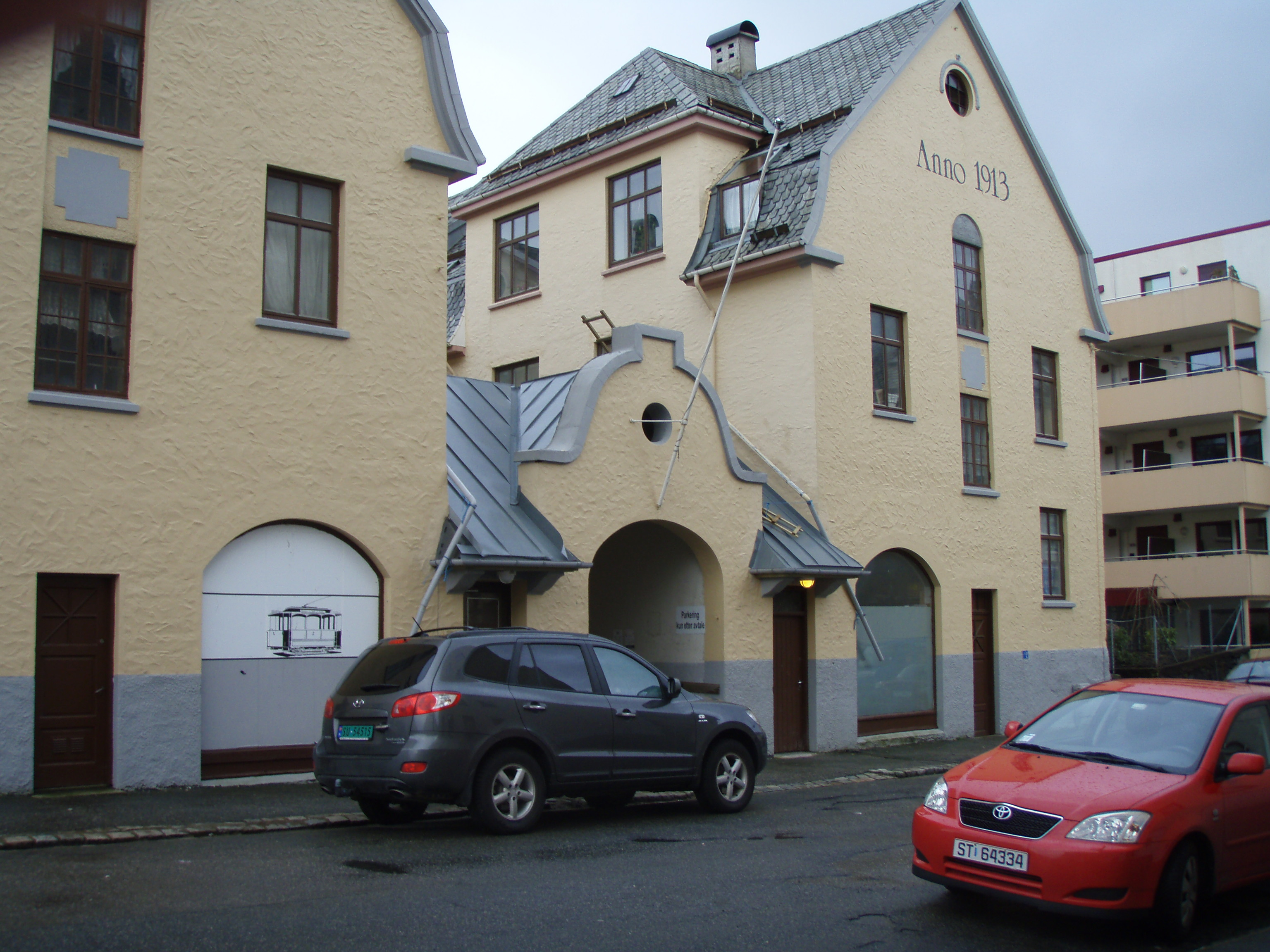 Trikkebyen is an appartmenthouse originally built for tram-drivers in 1913/14